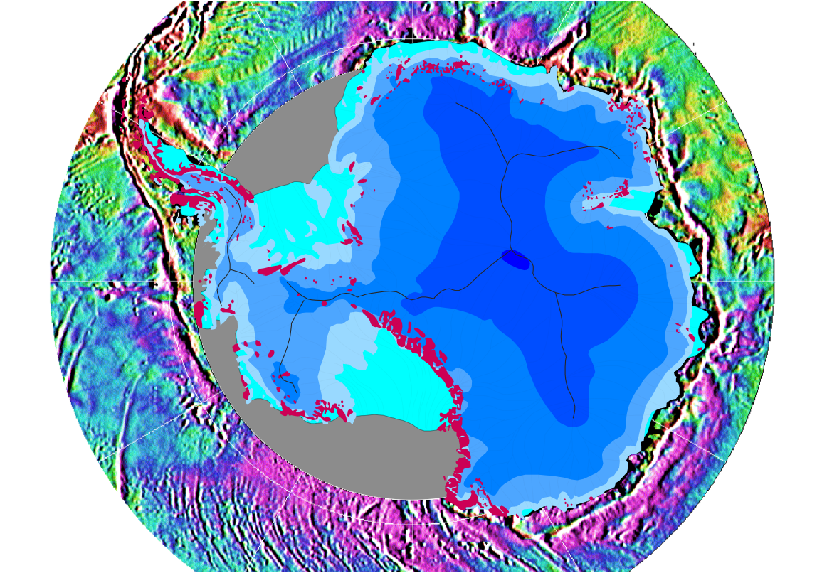 Gravity map of the Southern Ocean around the Antarctic continent This gravity field was computed from sea-surface height measurements collected by the US Navy GEOSAT altimeter between March, 1985, and January, 1990. The high density GEOSAT Geodetic Mission data that lie south of 30 deg. S were declassified by the Navy in May of 1992 and contribute most of the fine-scale gravity information. The Antarctic continent itself is shaded in blue depending on the thickness of the ice sheet (blue shades in steps of 1000 m); light blue is shelf ice; gray lines are the major ice devides; pink spots are parts of the continent which are not covered by ice; gray areas have no data.